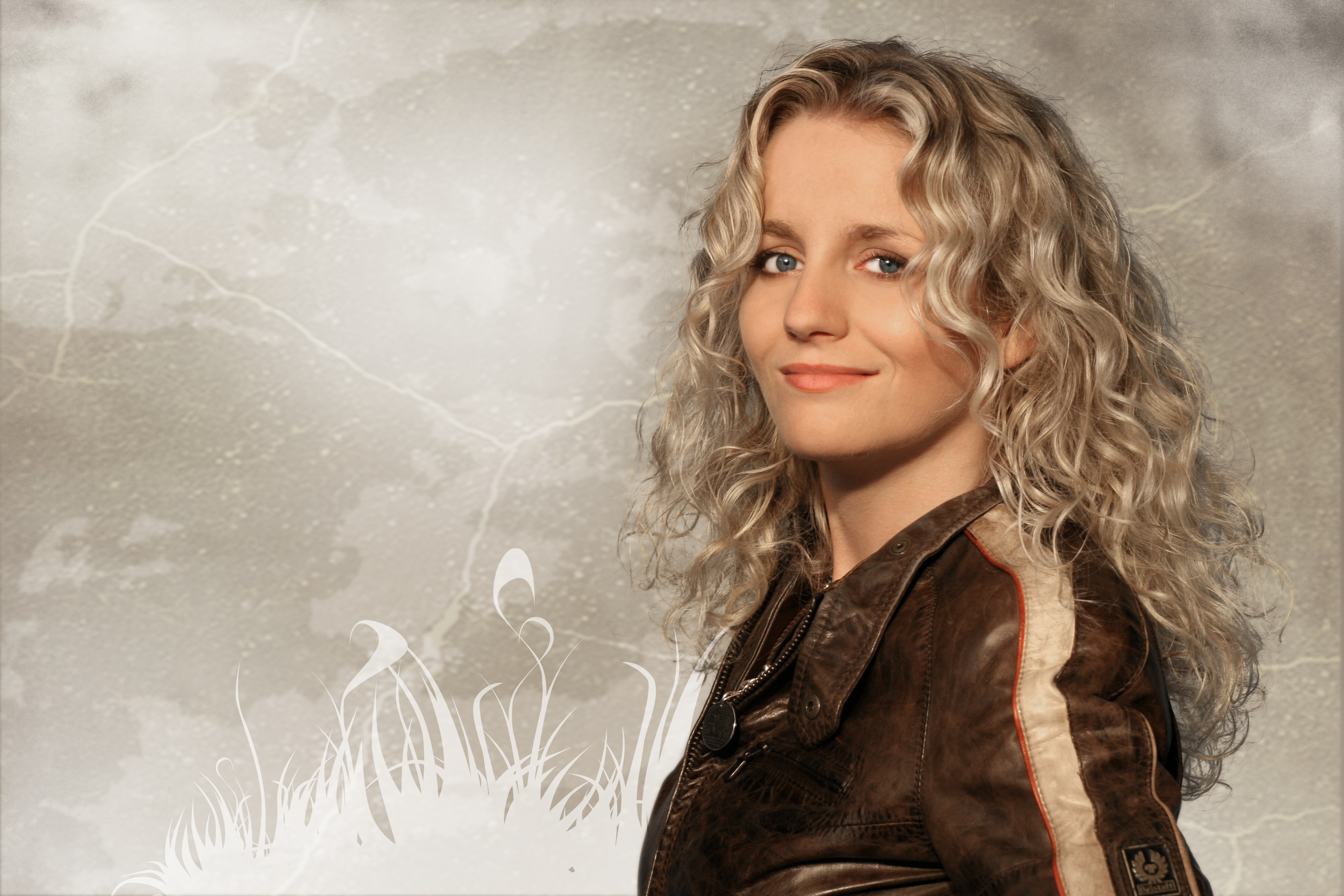 Singer Christina Rommel